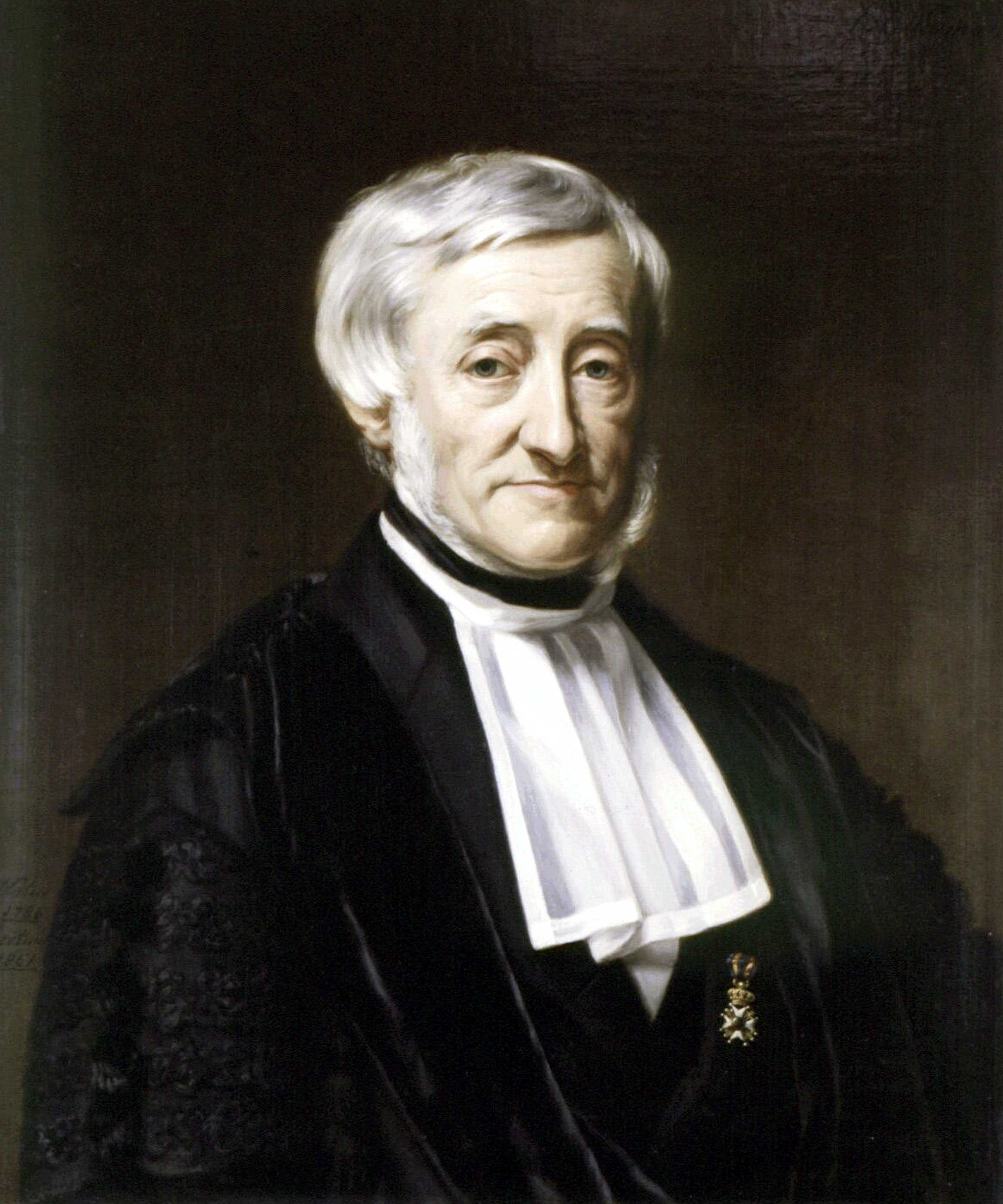 Adrianus Catharinus Holtius (1786-1861) Dutch legal scholars